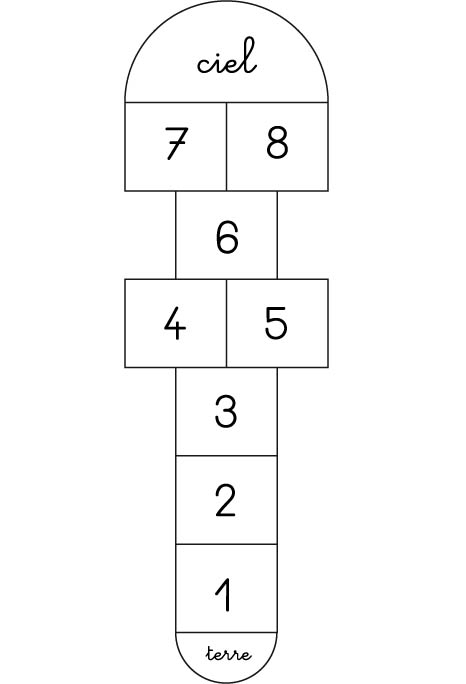 Hopscotch (modern version).